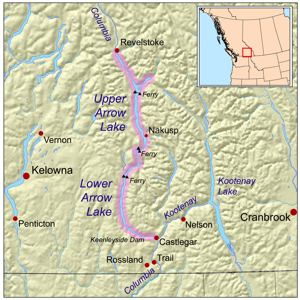 This is a map highlighting the Arrow Lakes in western Canada.